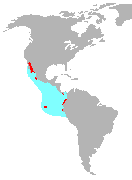 Blaufußtoelpel / Blue-footed Booby Sula nebouxii range Red: breeding colonies Light blue: feeding range at sea Quelle: Selbst erstellt Lizenz